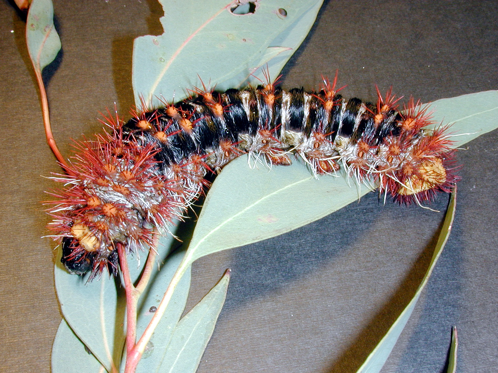 A white stemmed gum moth caterpillar. Also available, the mature white stemmed gum moth. See File no. BE0380